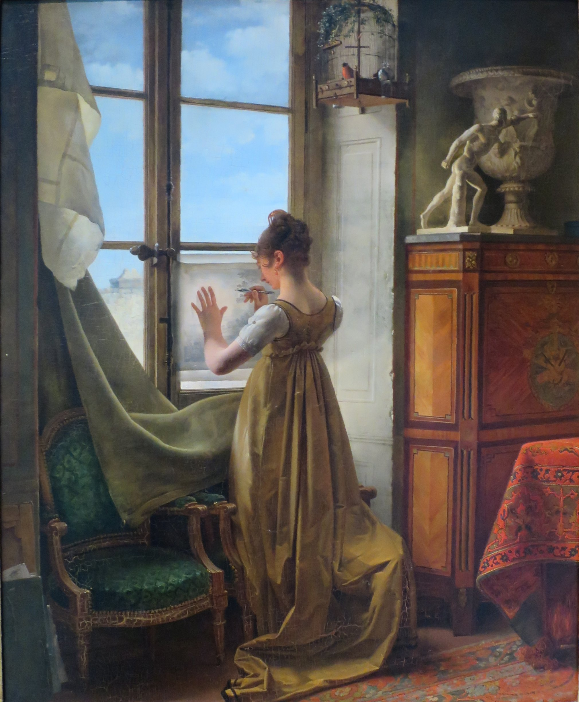 A Girl Copying a Drawing by Martin Drolling, Pushkin Museum